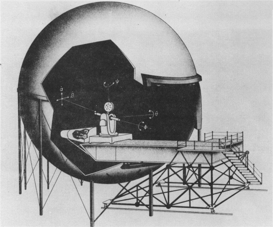 diagram of Projection Planetarium used by Gemini and Apollo programs for astronaut training.